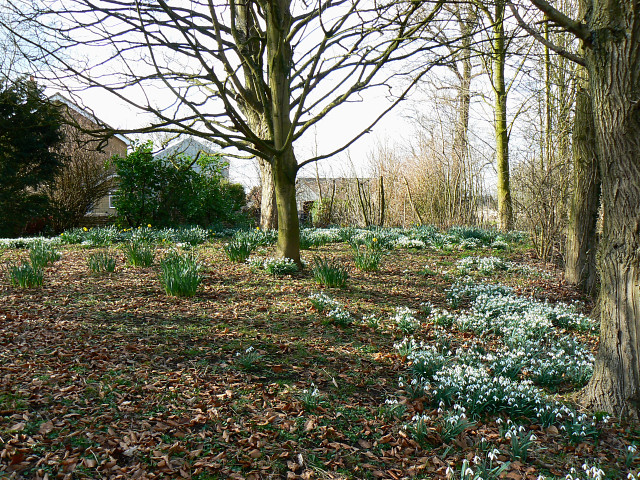 Trees, snowdrops and daffodils, A3102, Lyneham This small area of woodland is just west of the A3102.